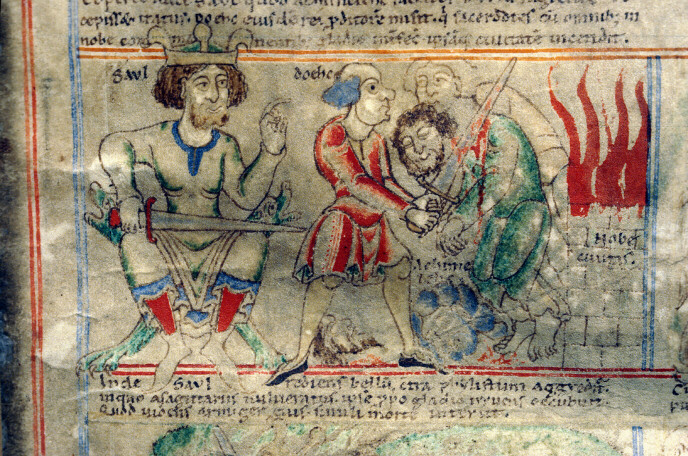 Murder of the priests in Nob (1 Sam 22).